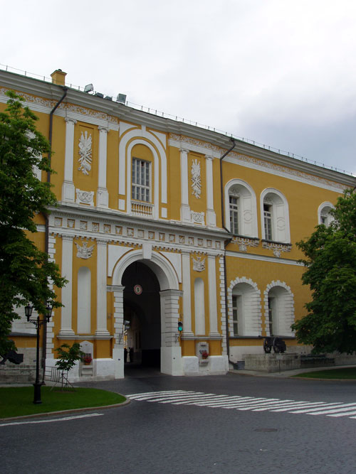 Moscow, the Kremlin. Kremlin Arsenal.